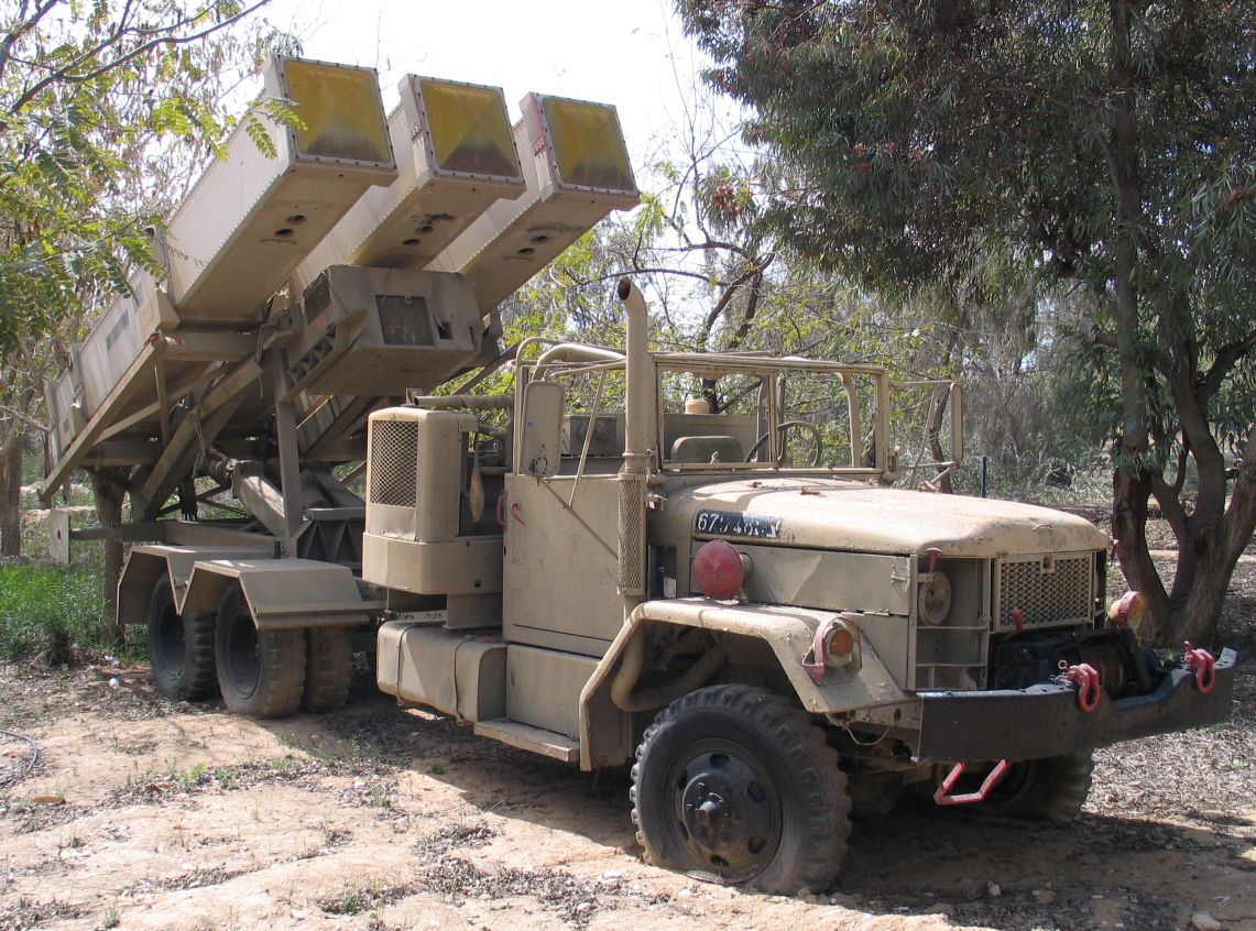 Description: Keres AGM-78 Standard ARM launcher mounted on M809 5-ton truck at Muzeyon Heyl ha-Avir, Hatzerim airbase, Israel. 2006. Source: Photo by me, User:Bukvoed.